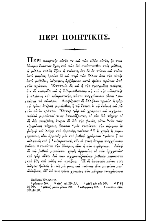 Aristotle: Poetics, first page in Immanuel Bekker's edition, 1837.